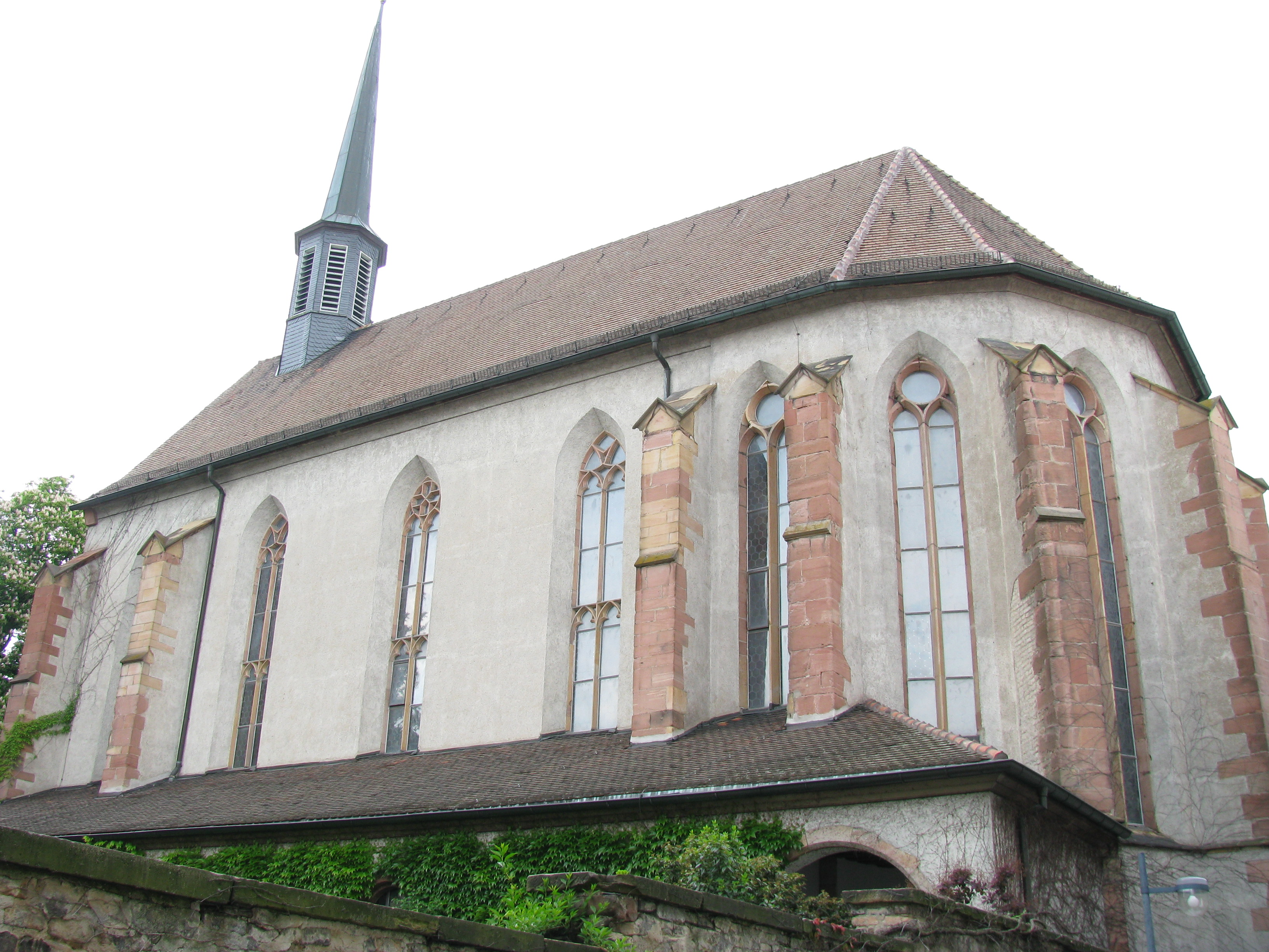 Speyer: St. Ludwig's Church, formerly part of a Dominikan monastery founded in the 13th. century